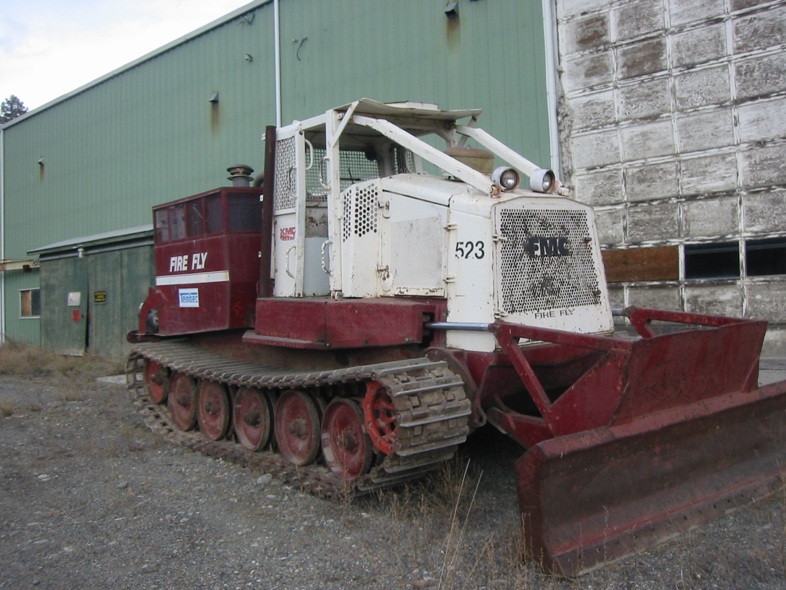 A FMC 210 Skidder converted for use in forest fires